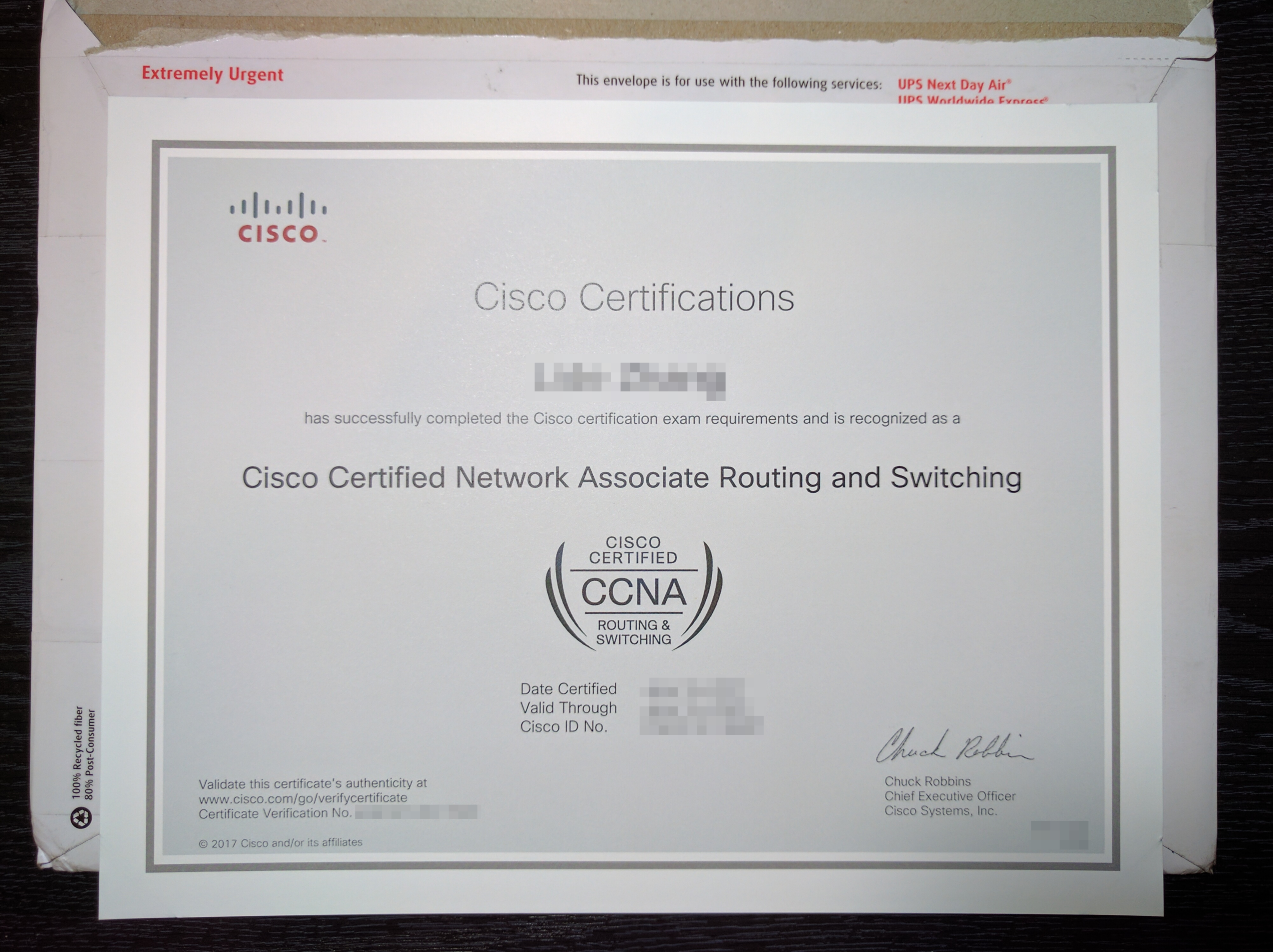 Certificate of Cisco Certified Network Associate